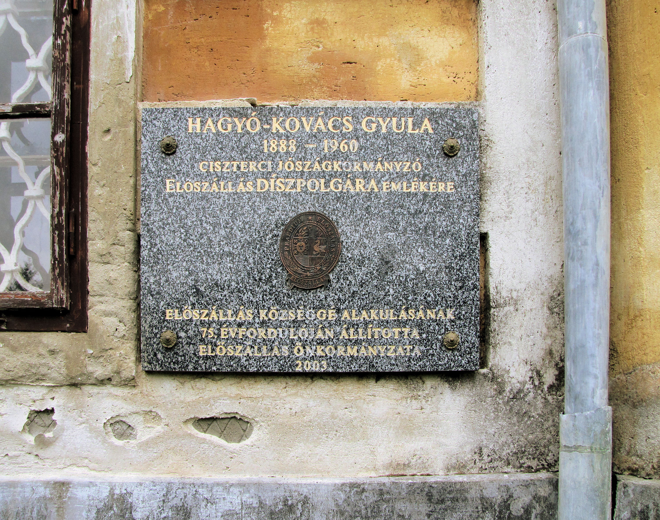 Memorial plaque of Gyula Hagyó-Kovács, former administrator of the Cistercian manor in Előszállás, on the wall of the former Cistercian monastery.